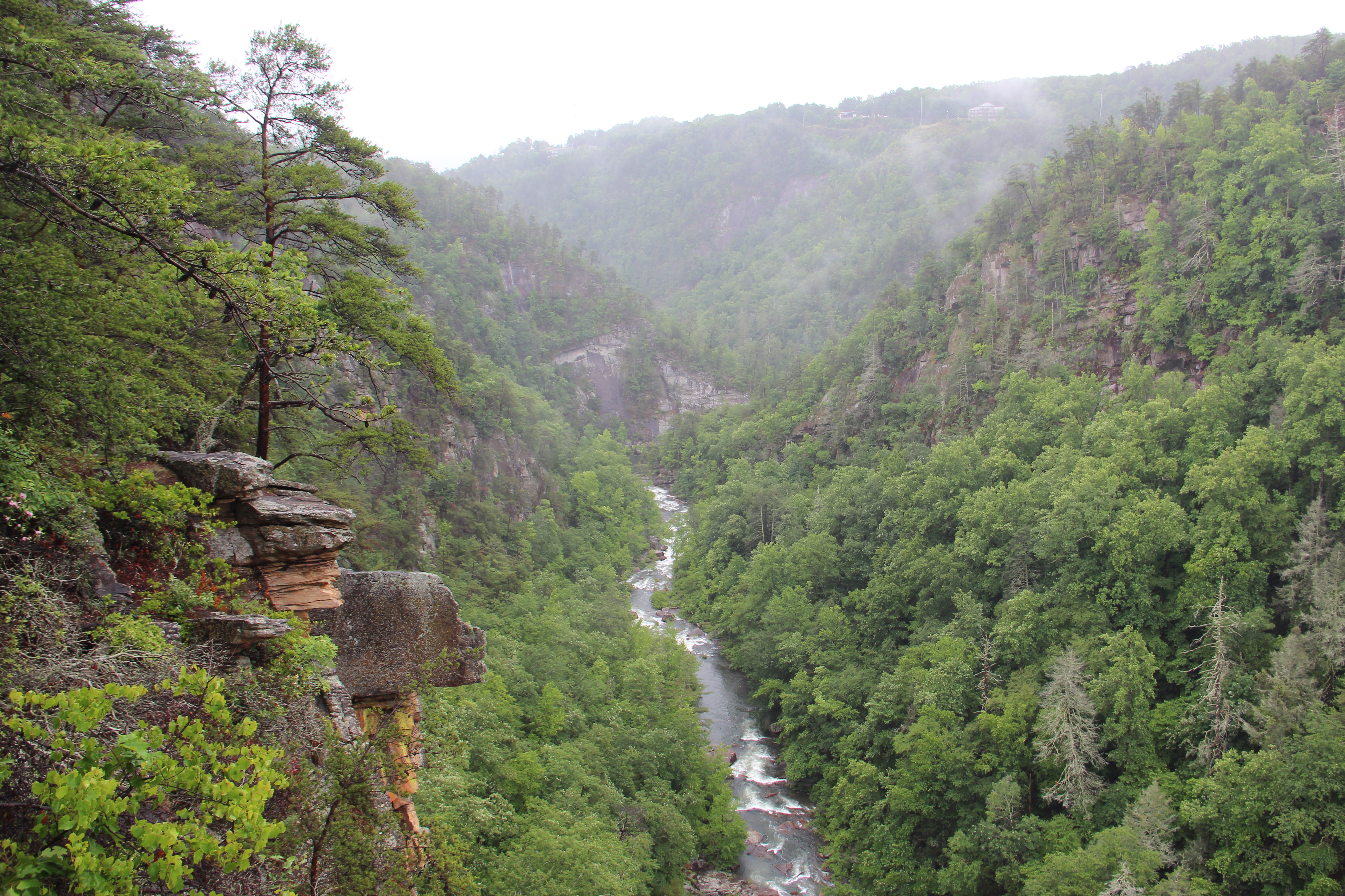 Tallulah Gorge as seen from an overlook